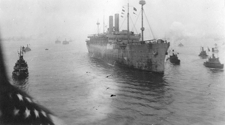 USS America (1905) steams up Boston Harbor, Massachusetts, upon arrival from France with troops of the 26th Division on board.